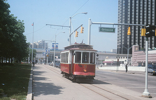 Detroit Downtown Trolley #3 (ex-Lisbon #469) on Jefferson Avenue in May 1991